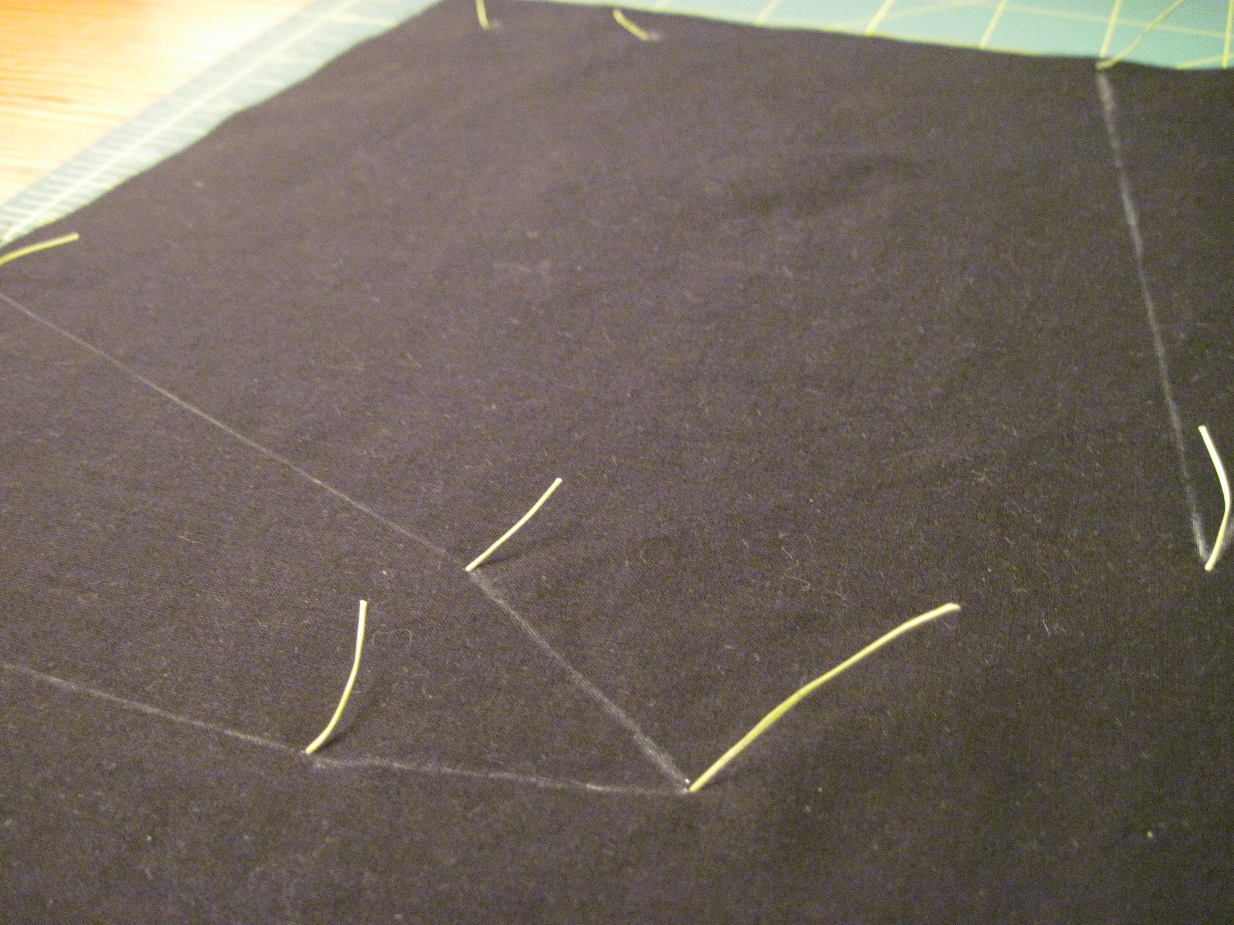 Tailors' tacks, shown, are a type of basting for fabric before marking and cutting fabric pieces for sewing